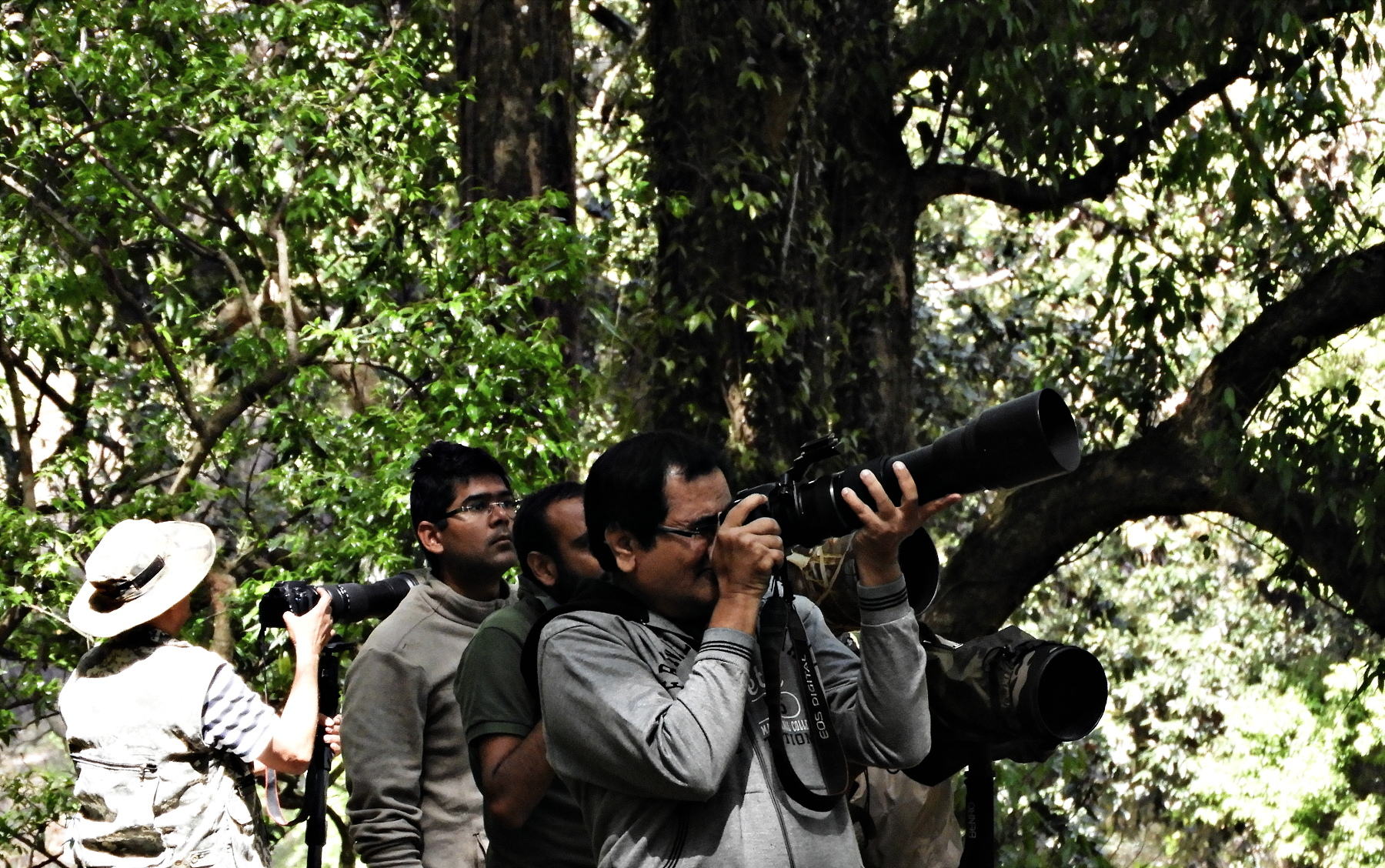 Bird Photographers at Sattal